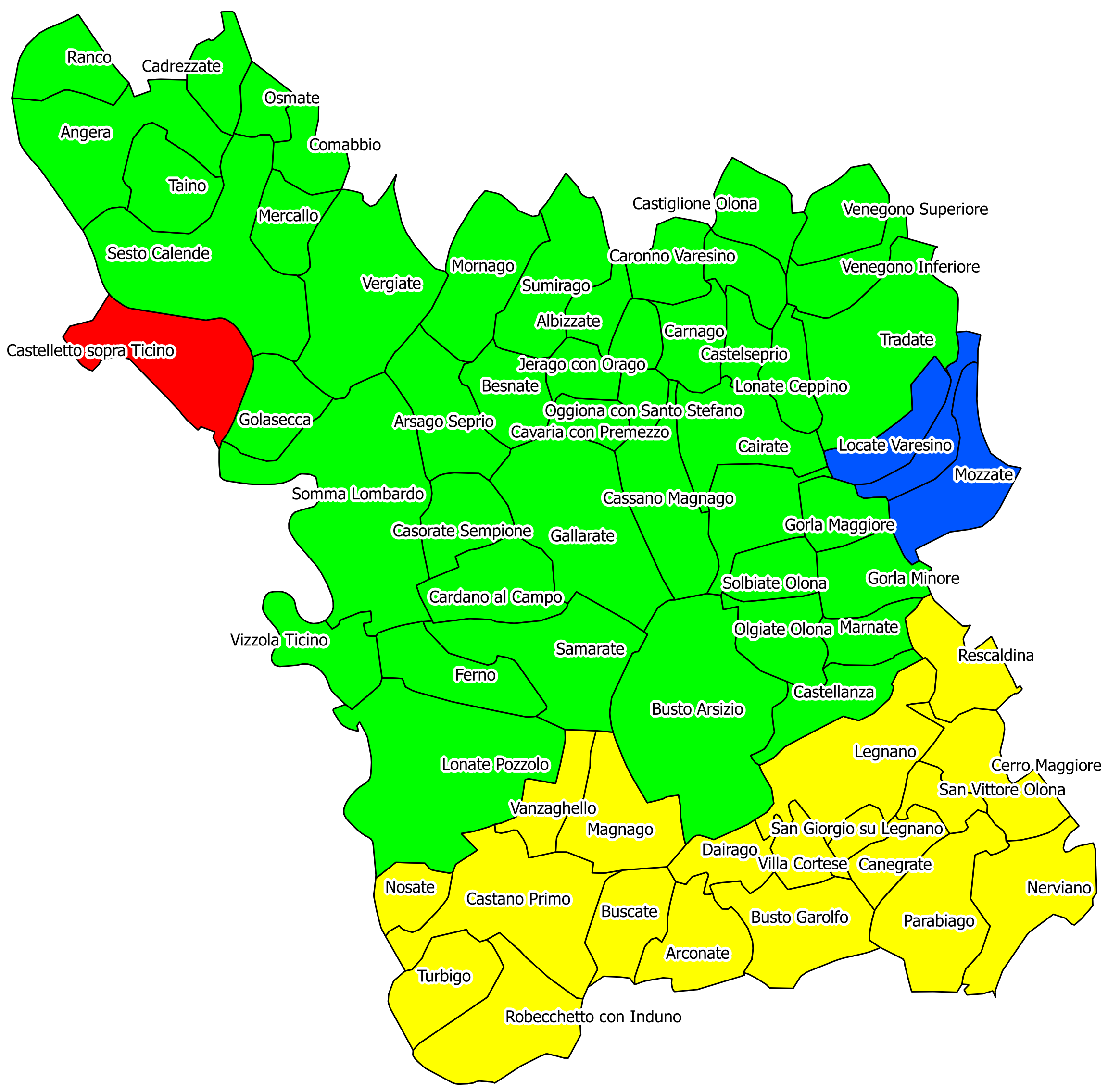 made with qgis